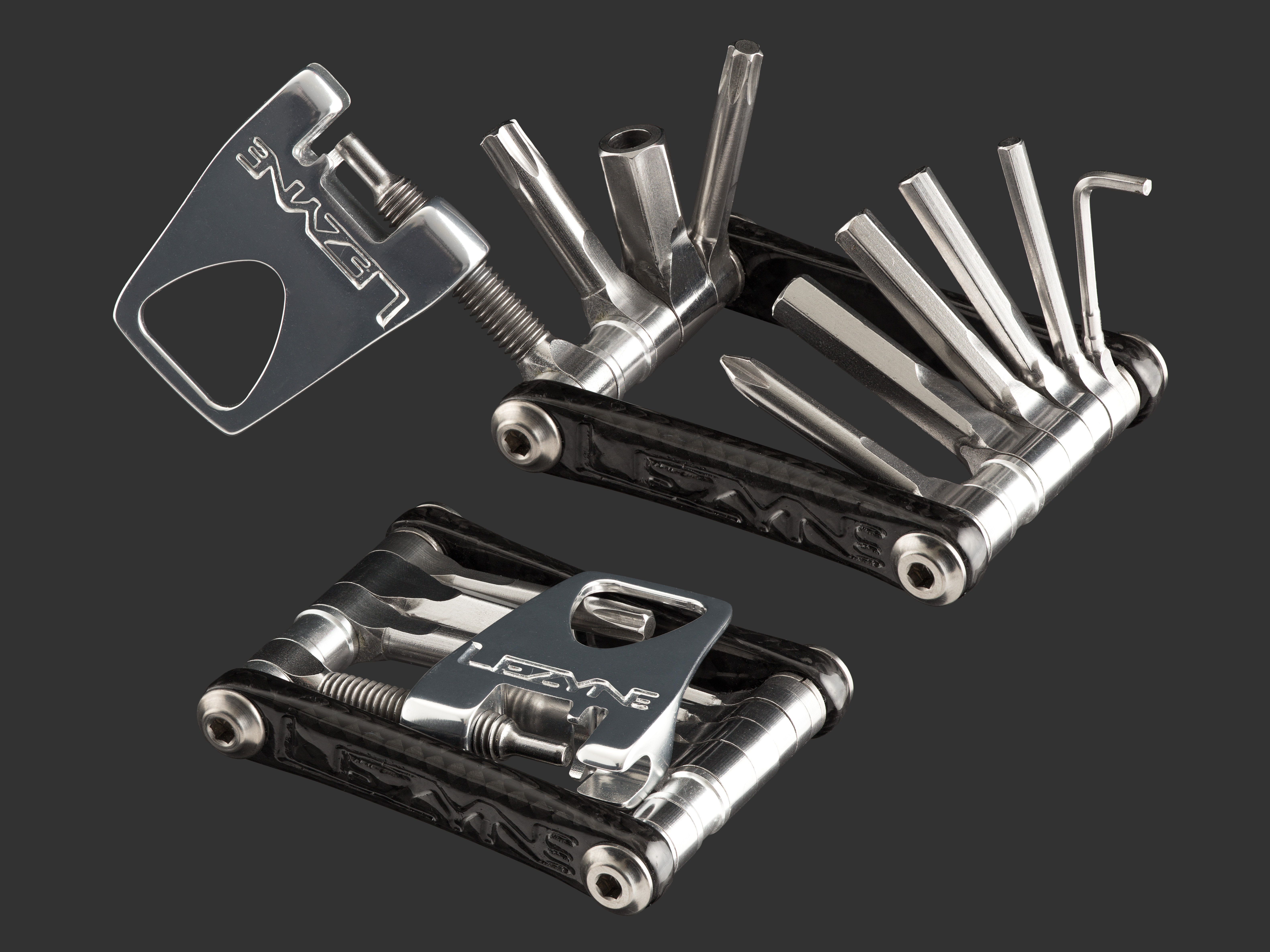 Lezyne Carbon 10 multi-tool for bikes.